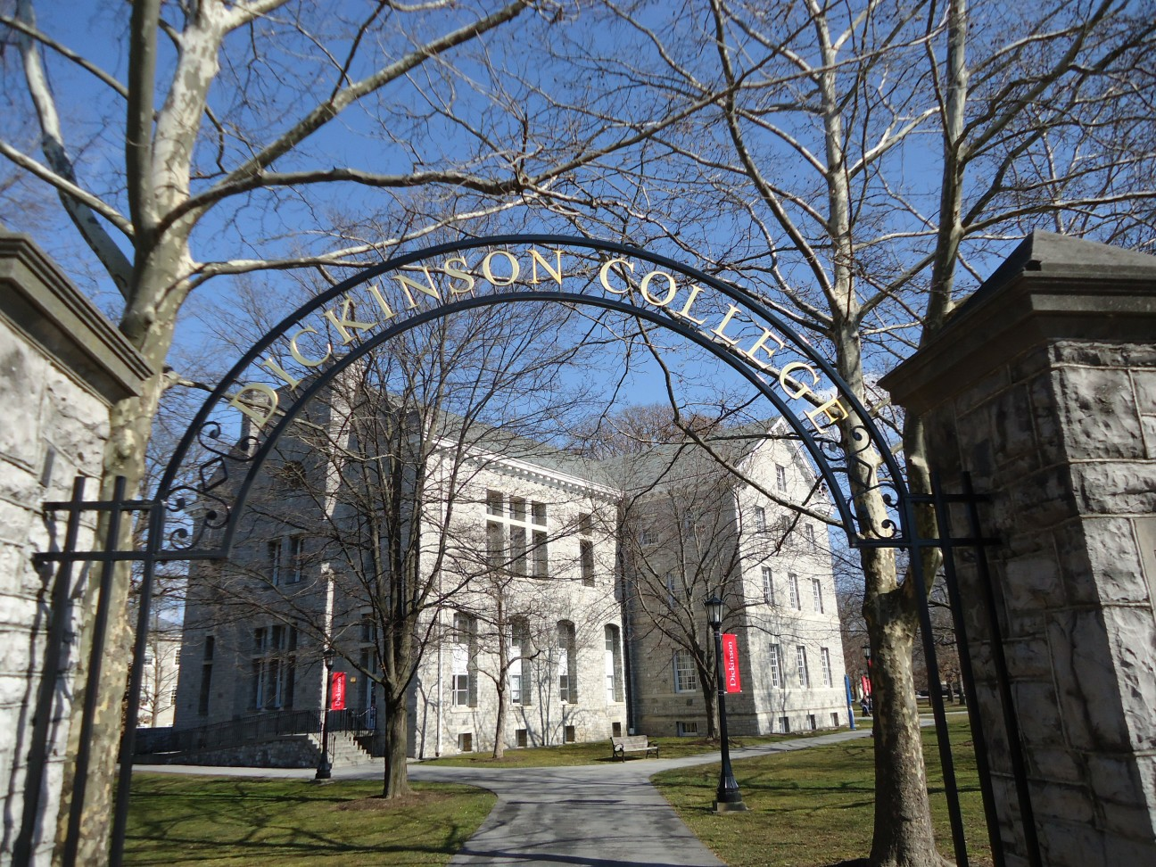 Dickinson College -- entranceway